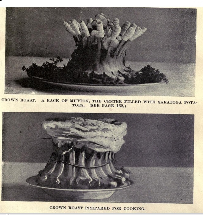 Rack of lamb or mutton the center filled with potatoes